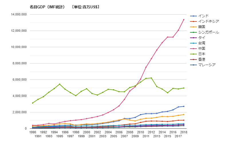 Nominal GDP Statistics of Asian Countries from 1990 to 2018, based on the Global Note (